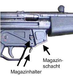 Part of image:MP5A3 Marinir.jpg with details on magazinholders